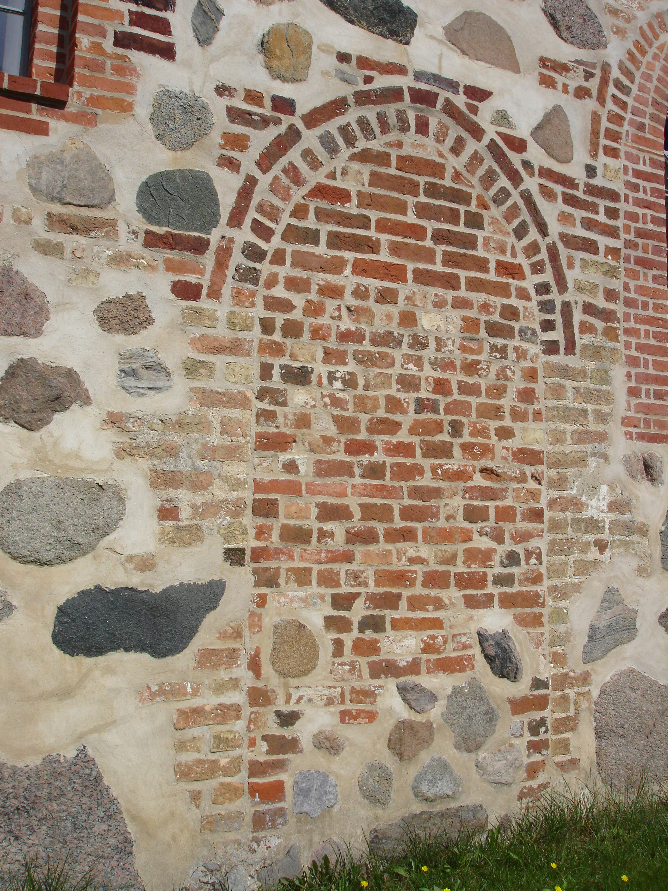 Church in Prestin, district Ludwigslust-Parchim, Mecklenburg-Vorpommern, GermanyFormer entry